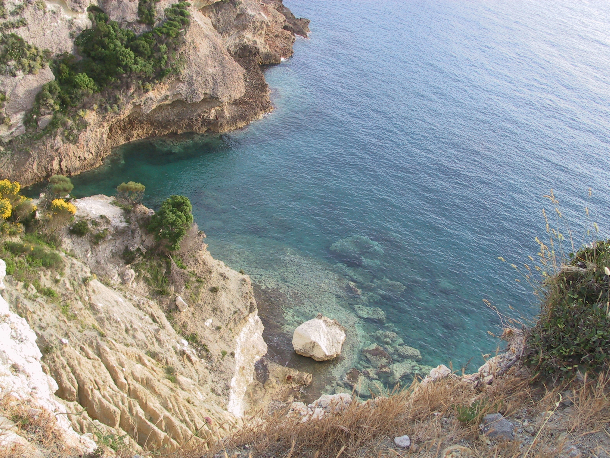 Sea of Ponza Island near Punta del Papa.